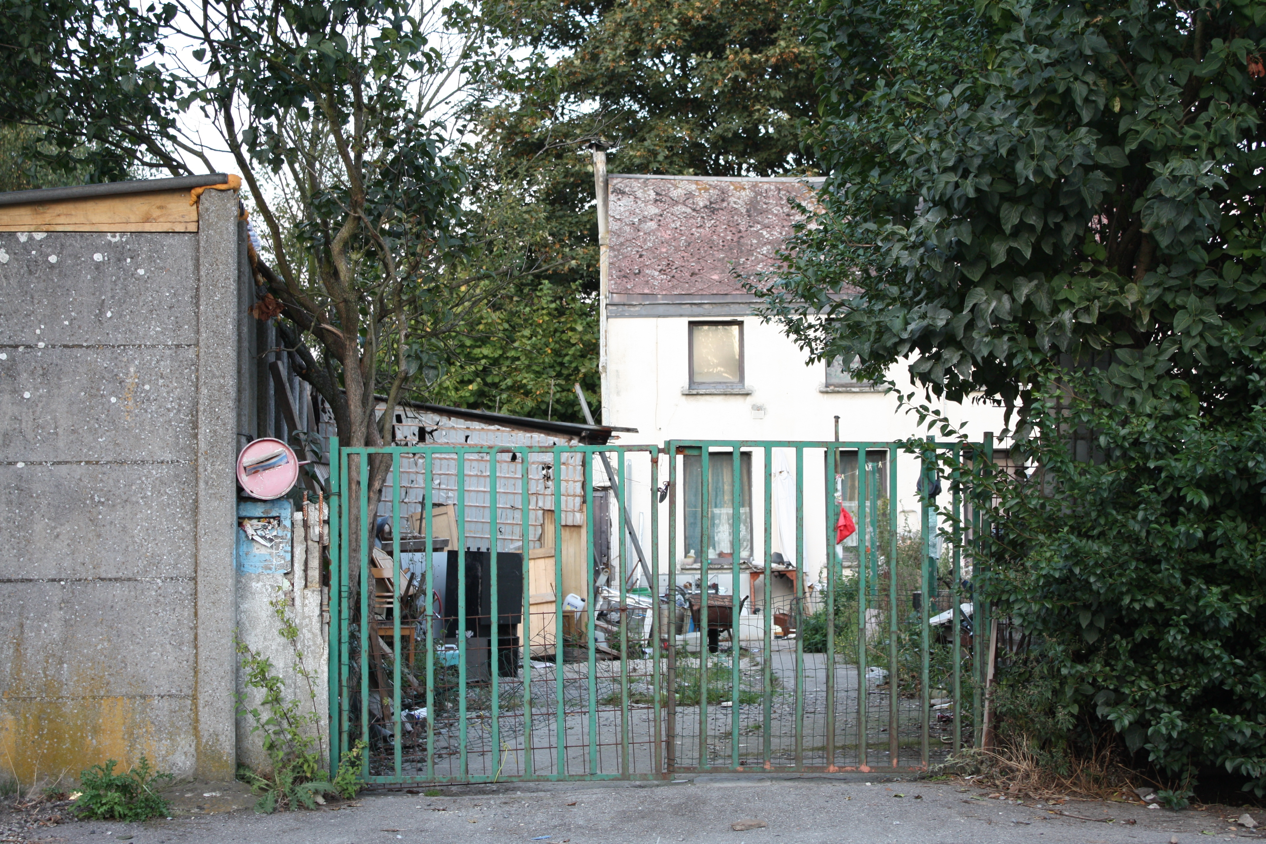 House, owned by Marc Dutroux in Marchienne-au-Pont, Belgium. The exact location is not named here and the house number is edited out of this picture, to protect the privacy of the (possible) inhabitants.